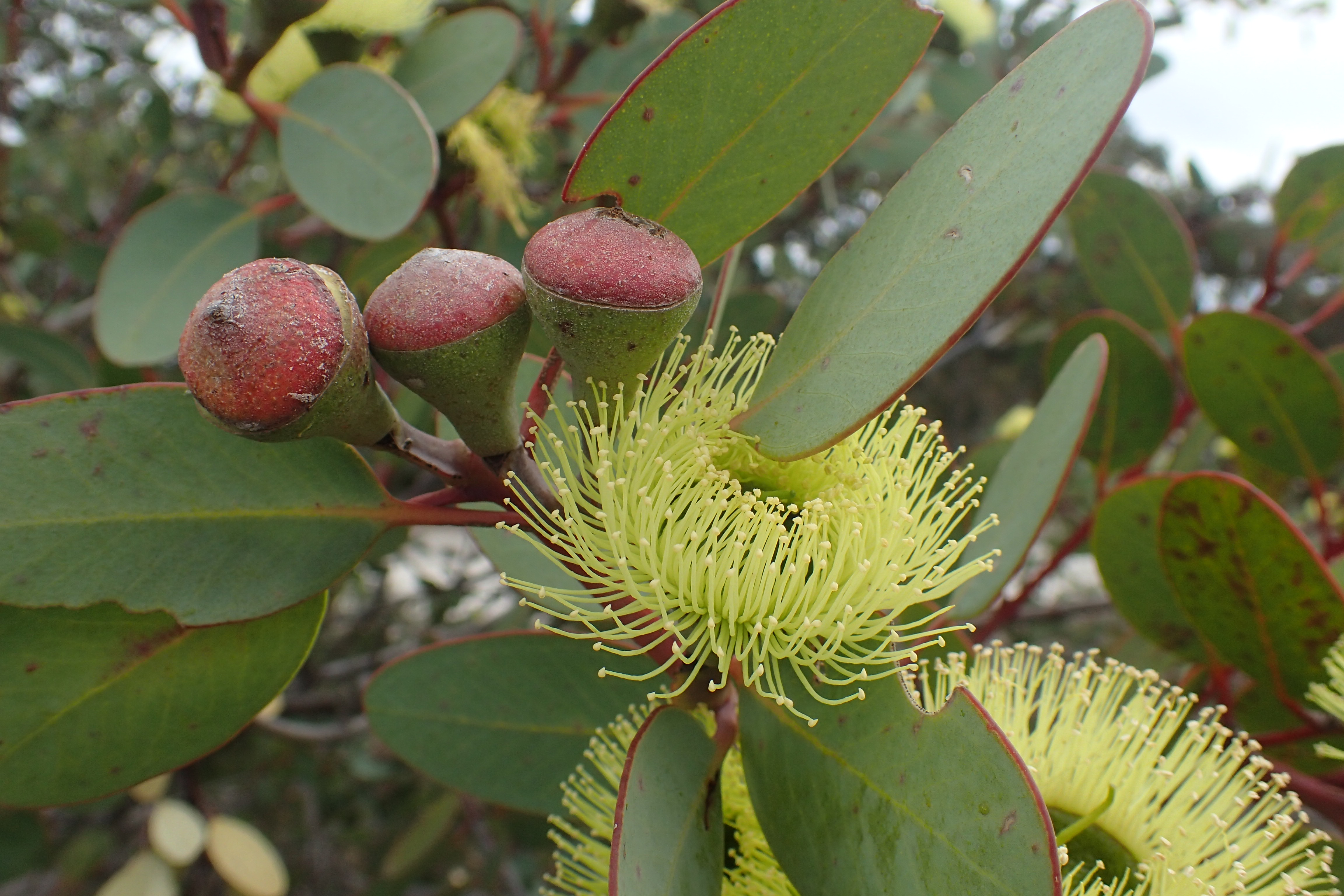 Flower buds and flowers of Eucalyptus preissiana in Helms Arboretum, near Esperance